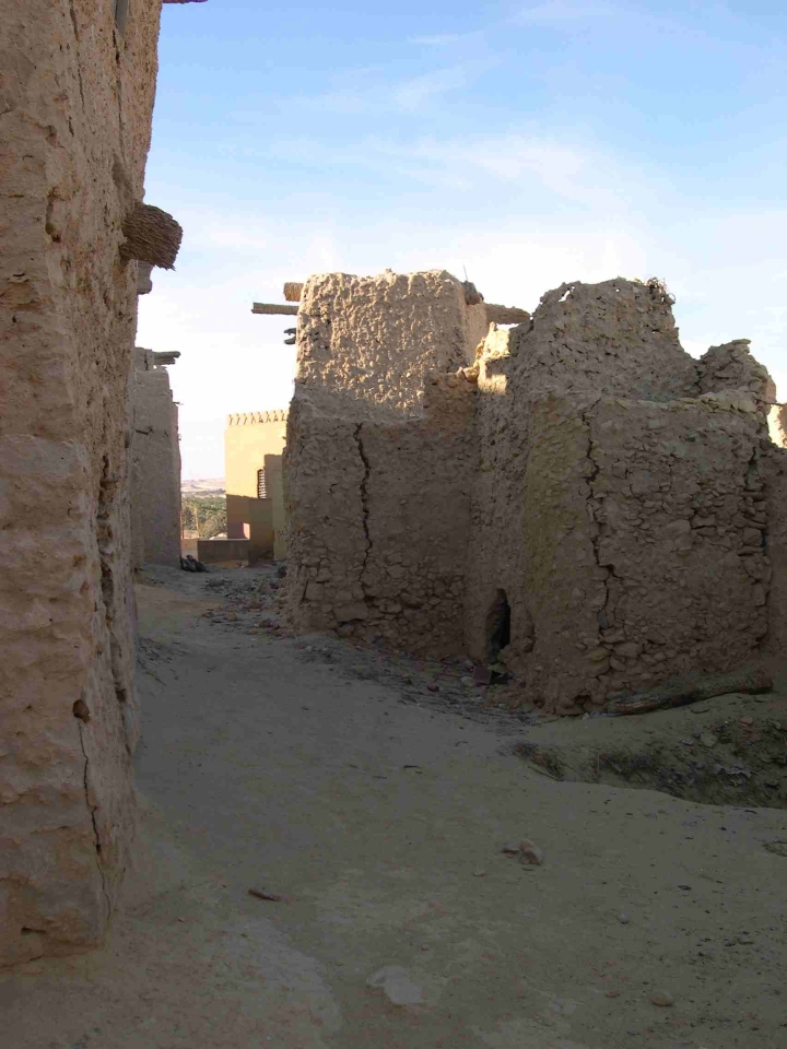 A street at the SW end of the Shali, Siwa Oasis, Egypt